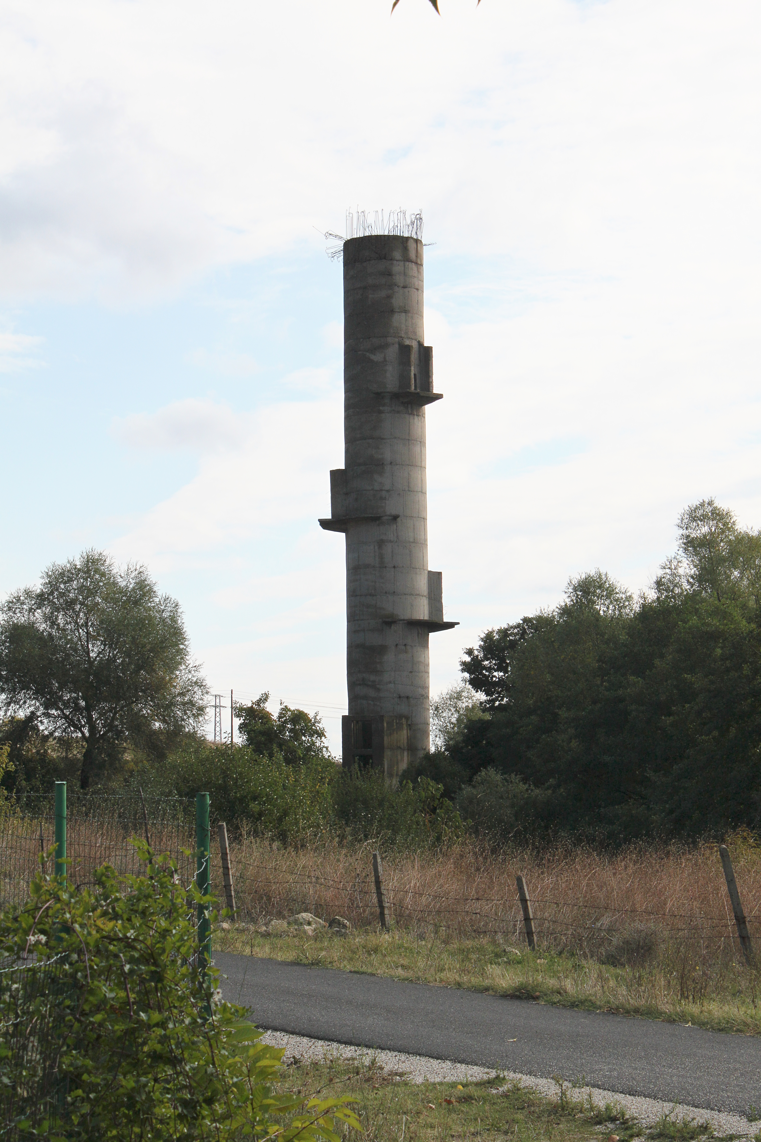 Villa Armira, in the Rhodope Mountains, Bulgaria; Water intake tower for a water reservoir; yet the reservoir was never finished, bacause of archrological findings